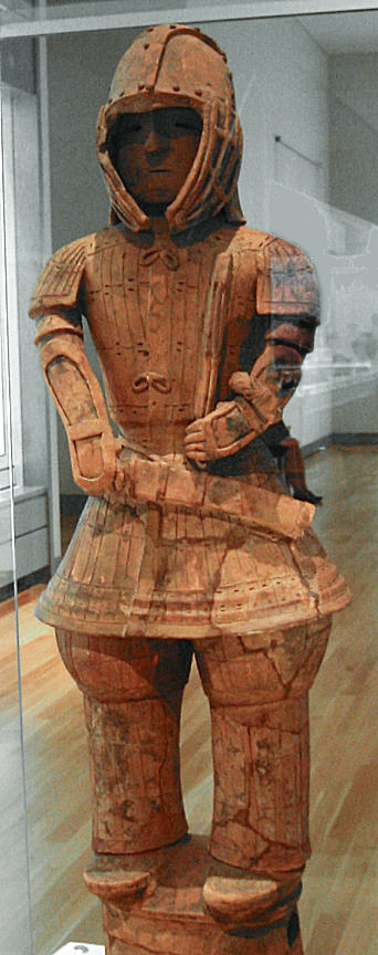 Kofun soldier, 5th century Japan. Tokyo National Museum